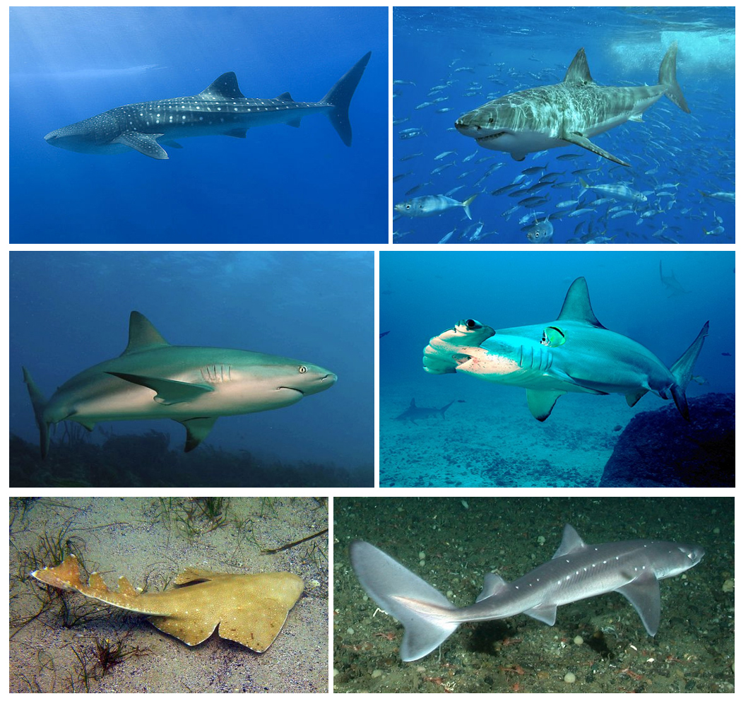 Selachimorpha